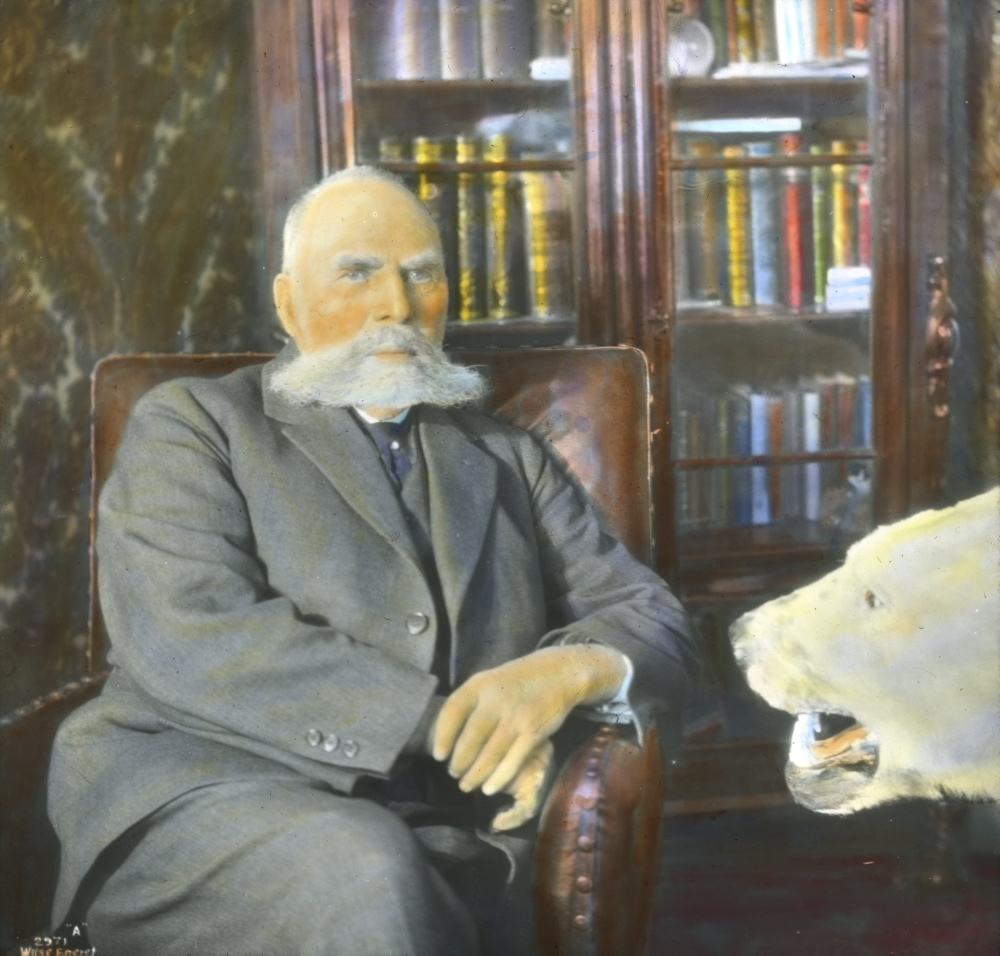 Håndkolorert dias. Bildet viser polfareren Otto Sverdrup sittende i en lenestol. I forgrunnen vises hodet til en utstoppet isbjørn.